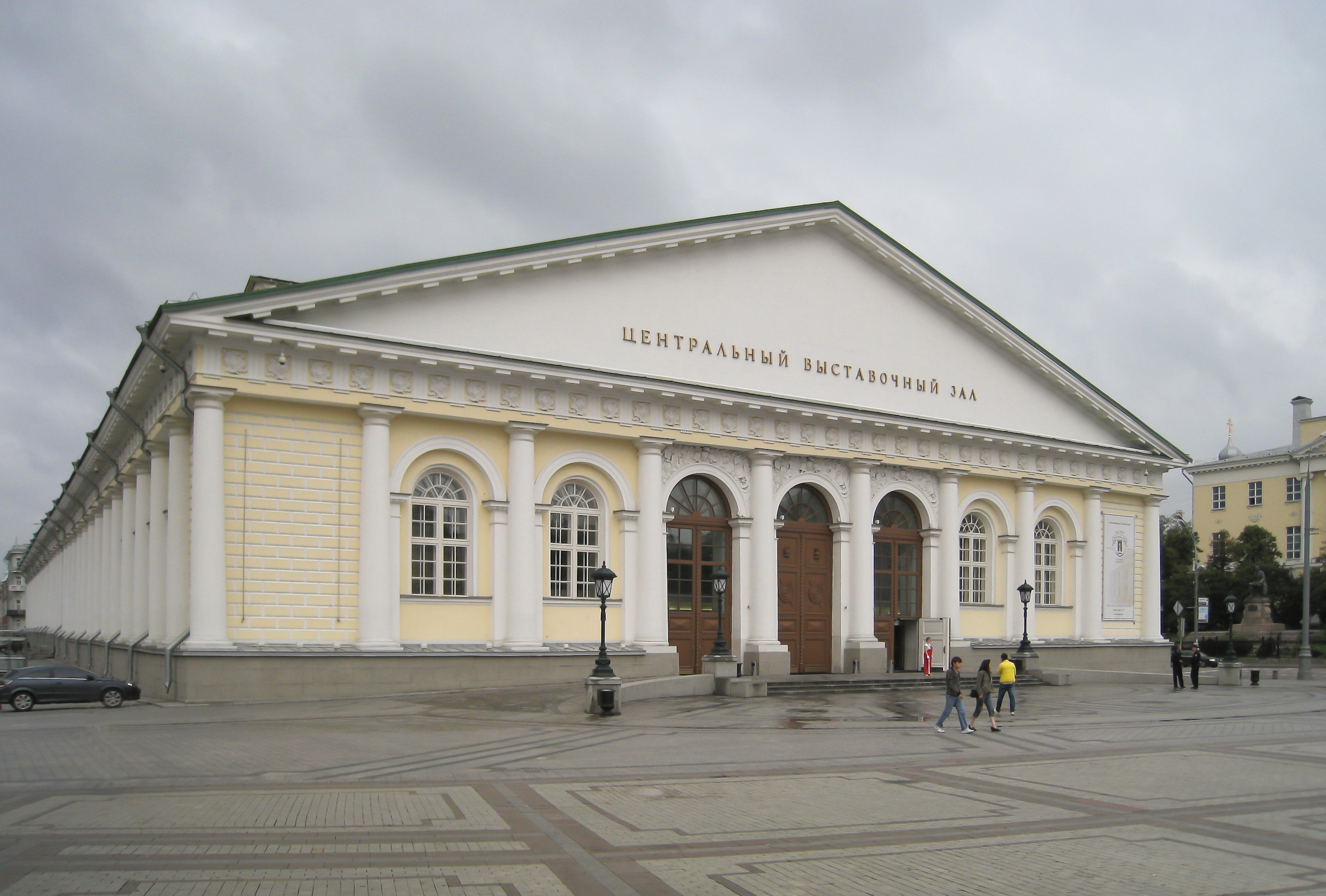 Moscow Manege is a large oblong building which gives its name to the vast Manege Square in the Russian capital.